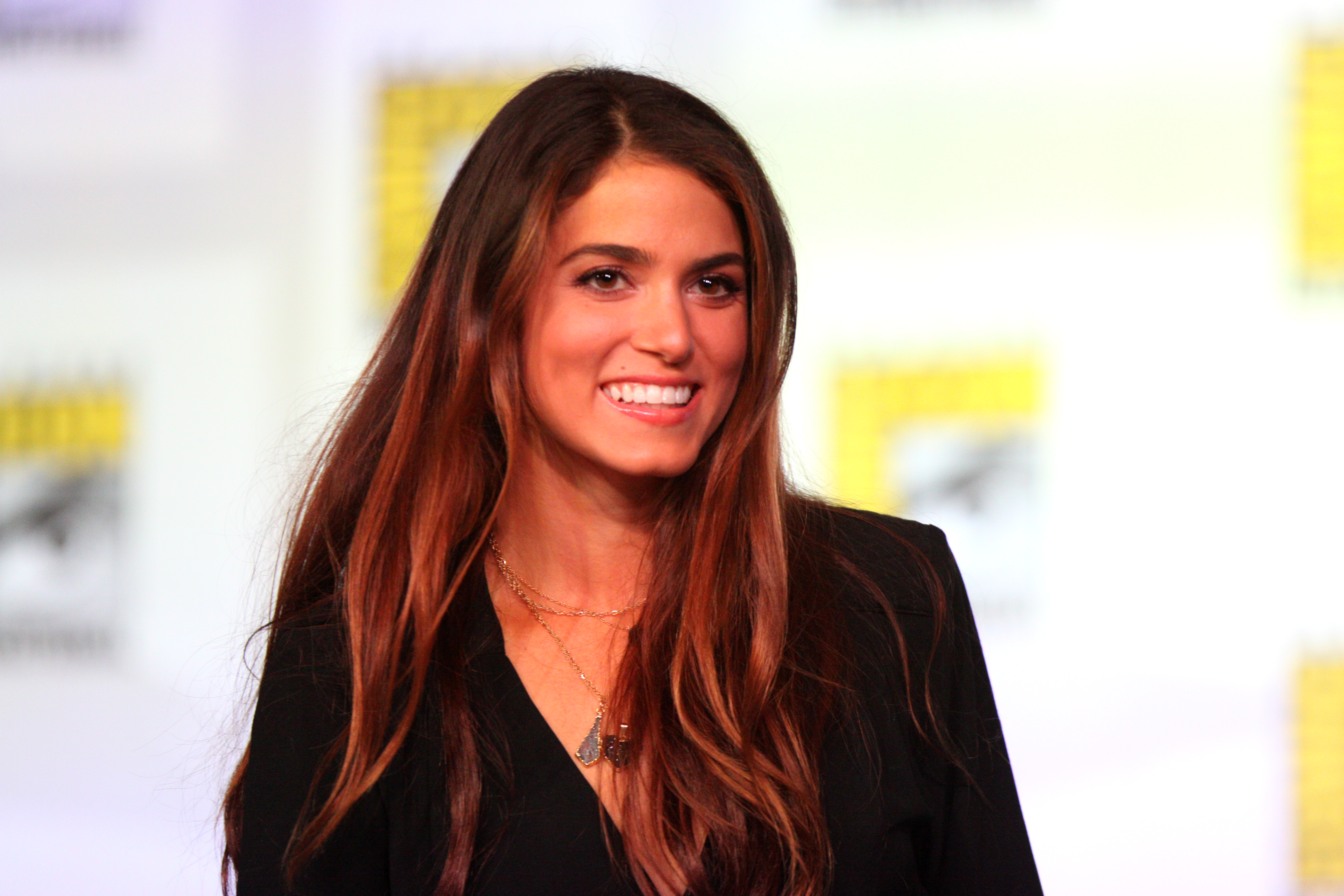 Nikki Reed speaking at the 2012 San Diego Comic-Con International in San Diego, California.